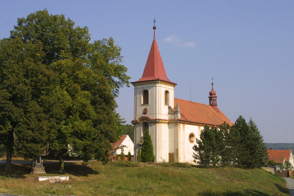 Church in Čivice village (Plzeň - sever district, Czech Republic)